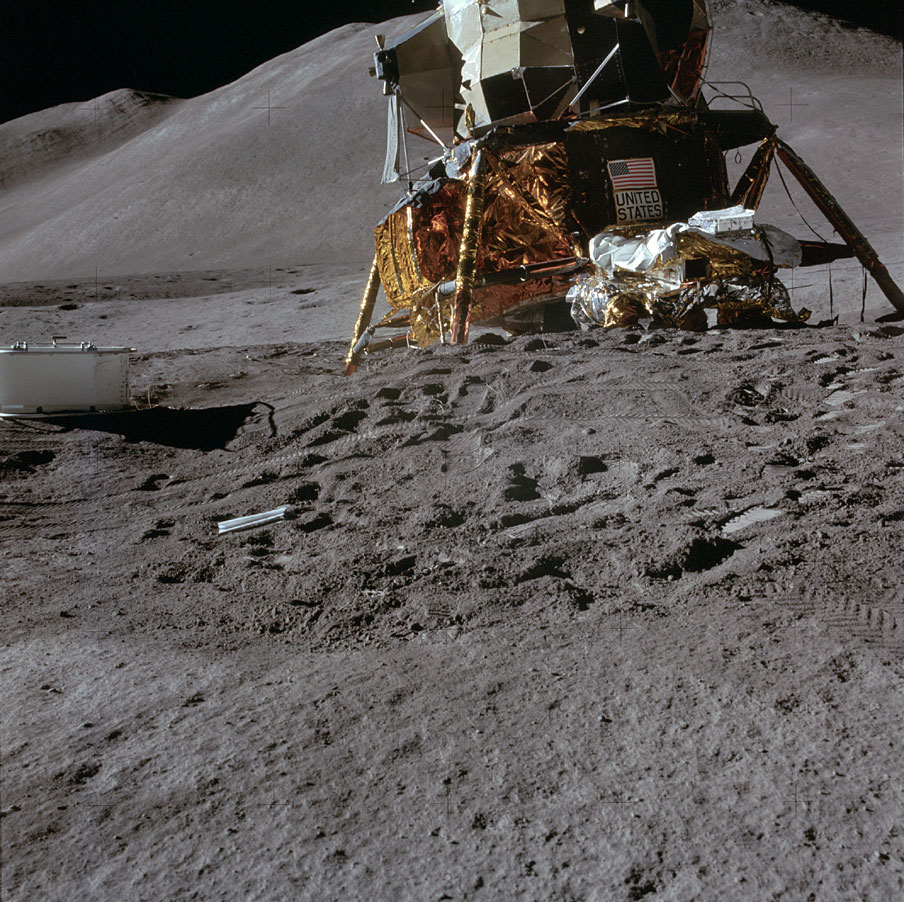 A view of significantly tilted LM Falcon